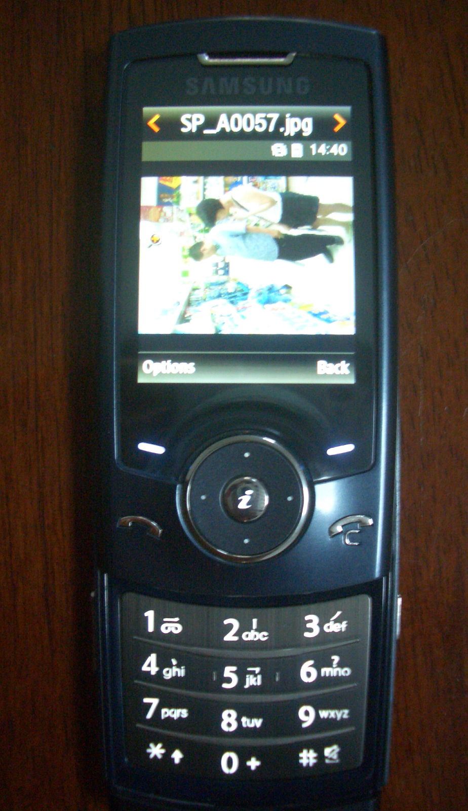 Mobile phone "Samsung SGH U600"